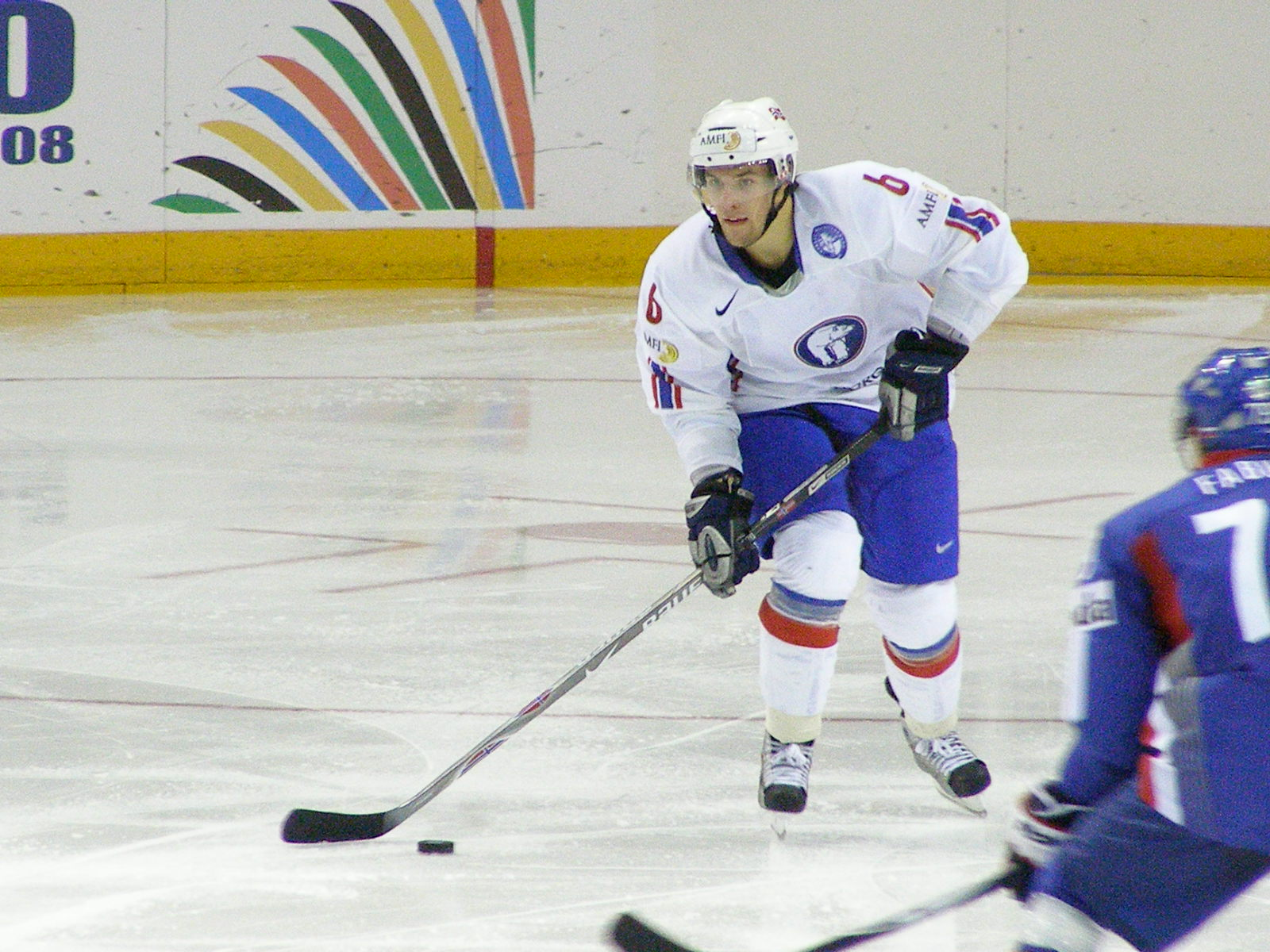 Jonas Holøs, defenseman for the Norway men's national ice hockey team, plays the puck during a game against Slovakia men's national ice hockey team at the 2008 IIHF World Championship.